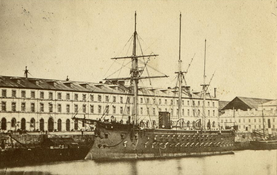 A photograph of the French ironclad Solférino